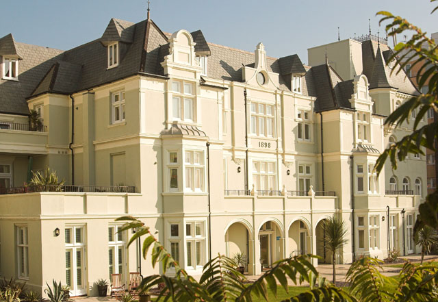 Former French Convalescent Home - De Courcel Road, Brighton, England, UK. Opened in 1898 this became a convalescent home for French and other nationalities. For more information [Dead link February 2010!] This extraordinary, listed building has since been converted to flats. The site faces the sea and is very close to the Marina at Brighton